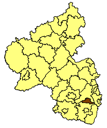 Map of Rhineland-Palatinate, Germany